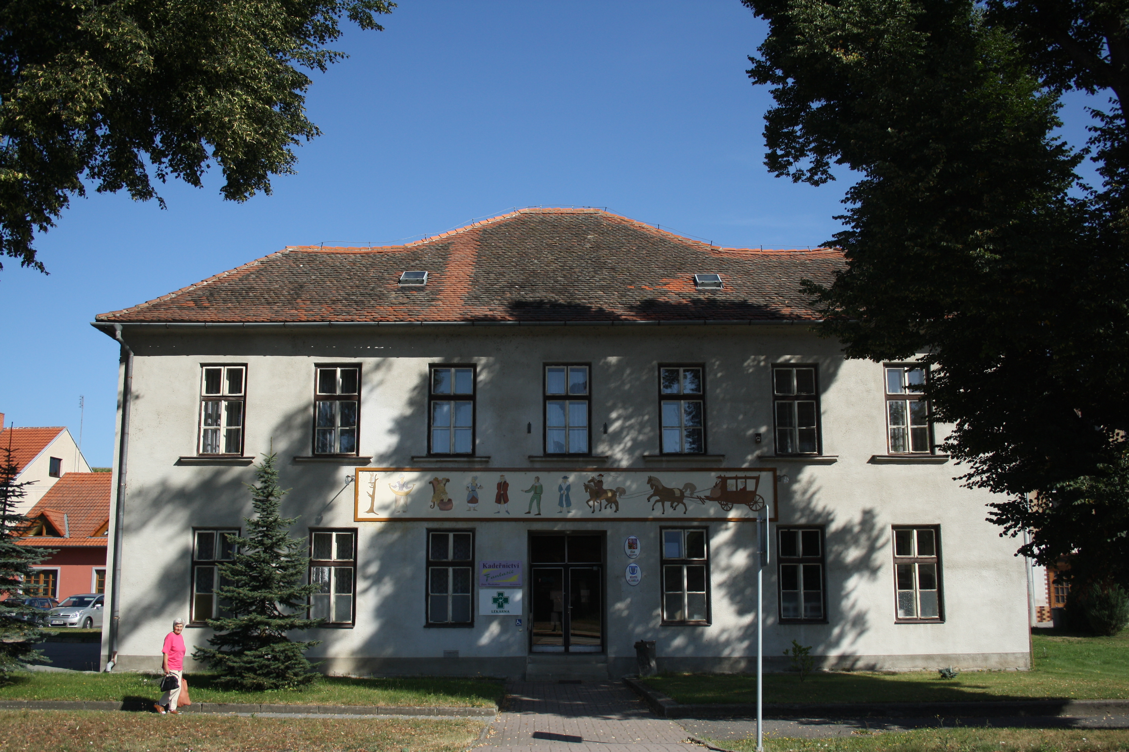 City hall of Vladislav.